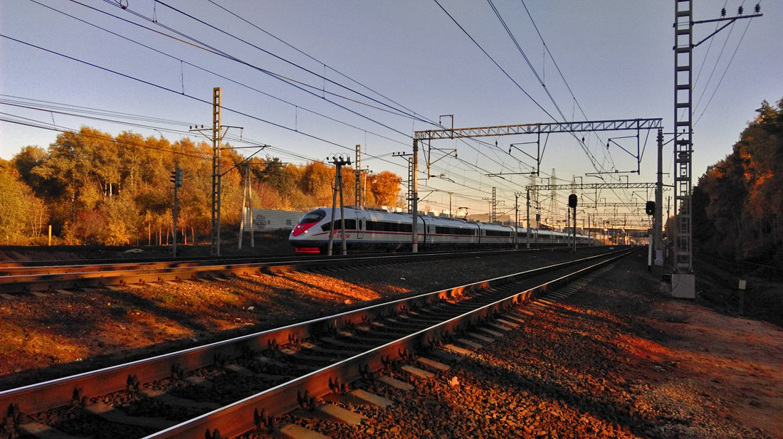 St.Petersburg - Moscow railway crossing the border between Moscow oblast and Moscow